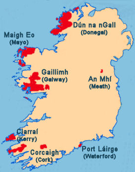 Geal